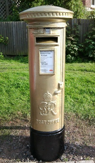 The gold painted post box on the corner of Arleston Lane and Wollam Road, Arleston, Telford to commemorate the gold medal won by paralympian Mickey Bushell.